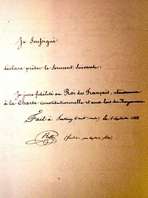 Acknowledgement by Ritter of his fidelity to the King and constitution (1843).